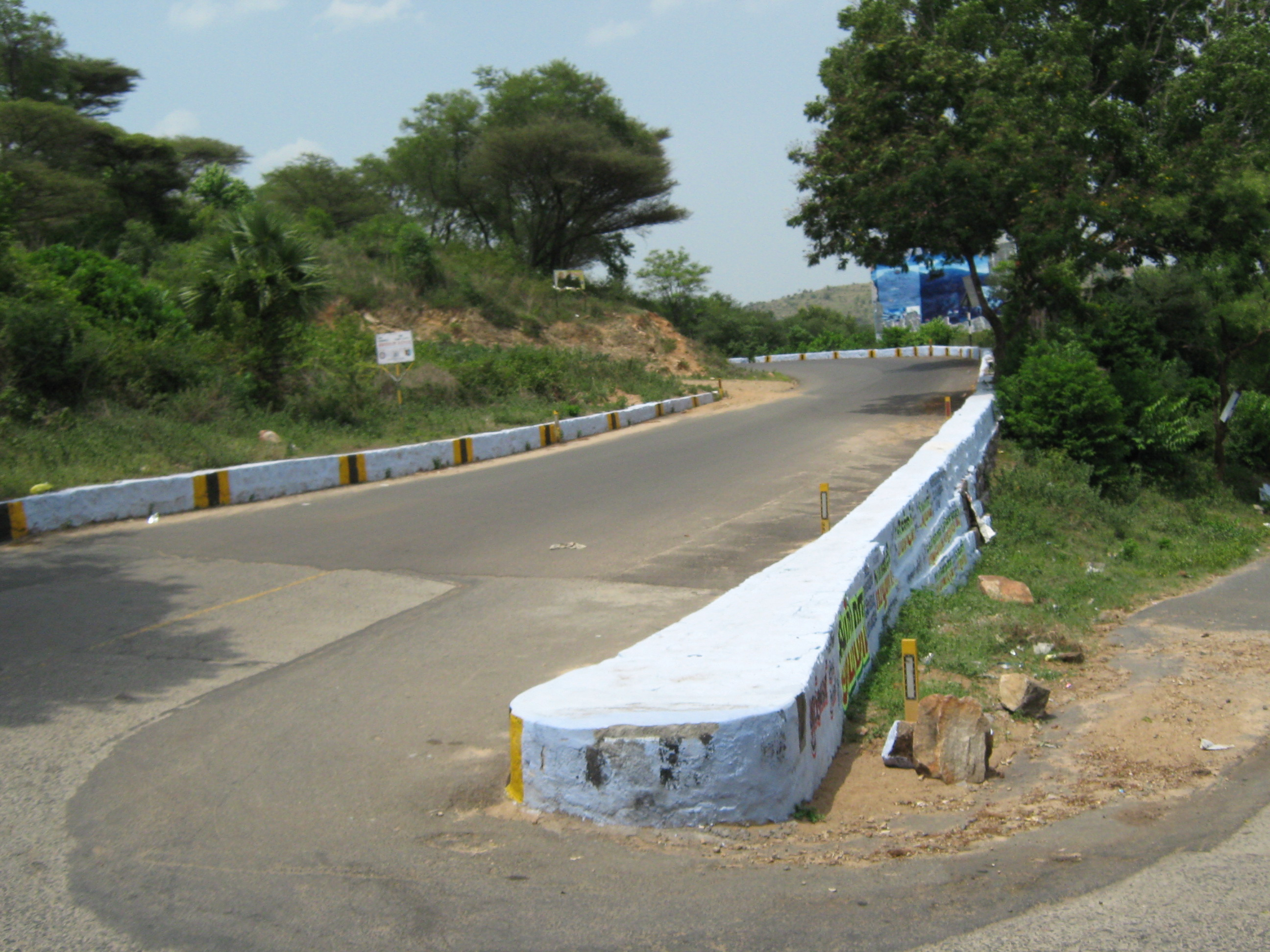 A Hairpin bend in Mountain Roads, Tamil Nadu, India